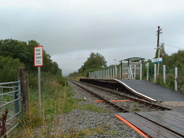 Dolgarrog Halt. Near the very northern edge of the square - however the crossing and near half of the platform are within SH7866!